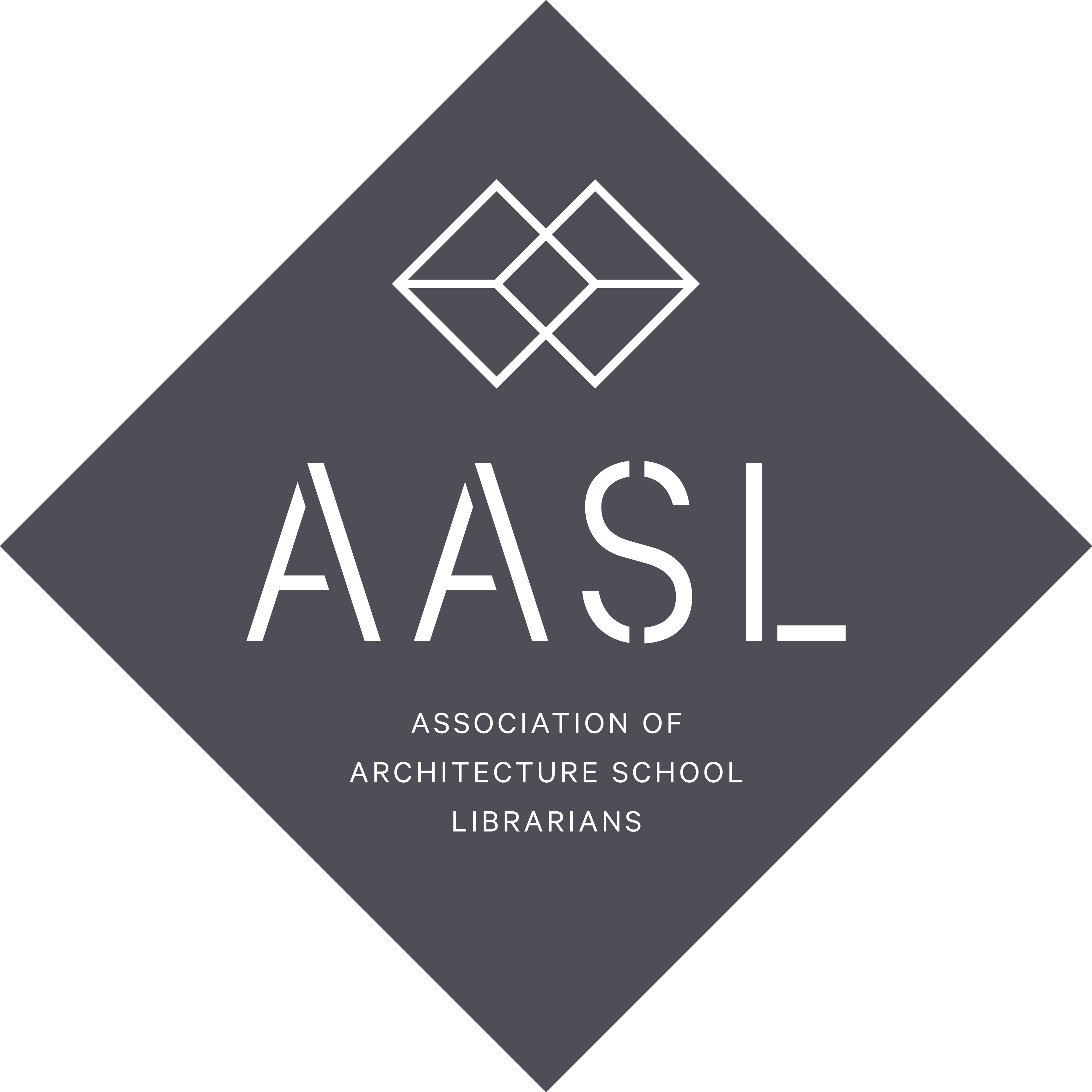 Logo designed by Giona Lodigiani (2016)